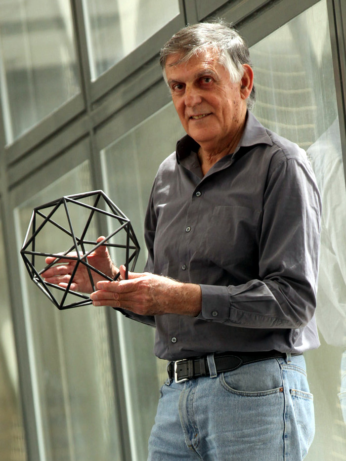 Crop out the legs